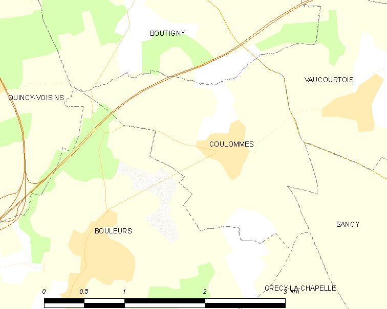 Map of French municipality Coulommes